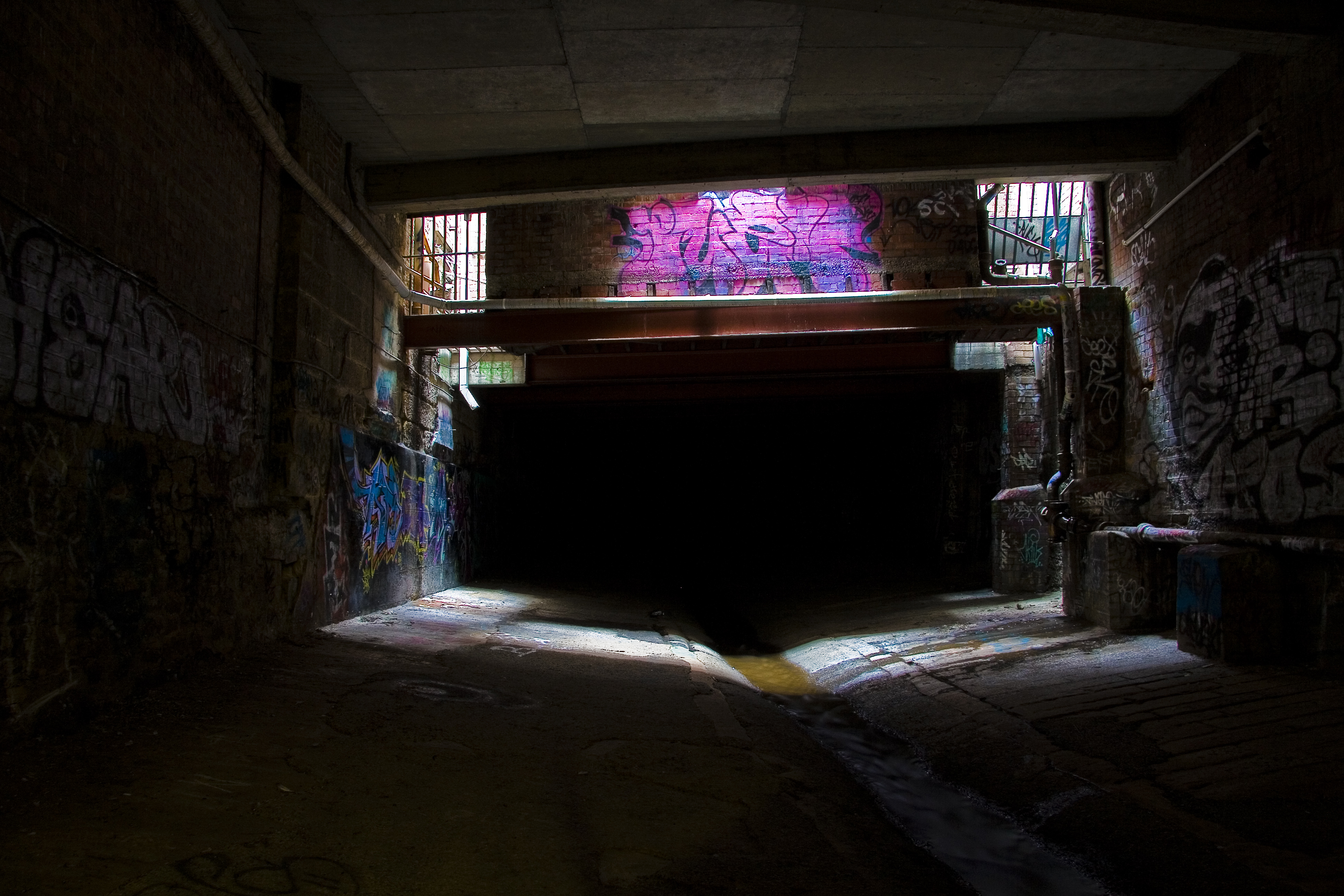 Hobart Rivulet Underground Camera data Camera Canon EOS 400D Lens Canon EF-S 17-85mm f4-5.6 IS USM Focal length 17 mm Aperture f/8 Exposure time 173 s Sensivity ISO 200